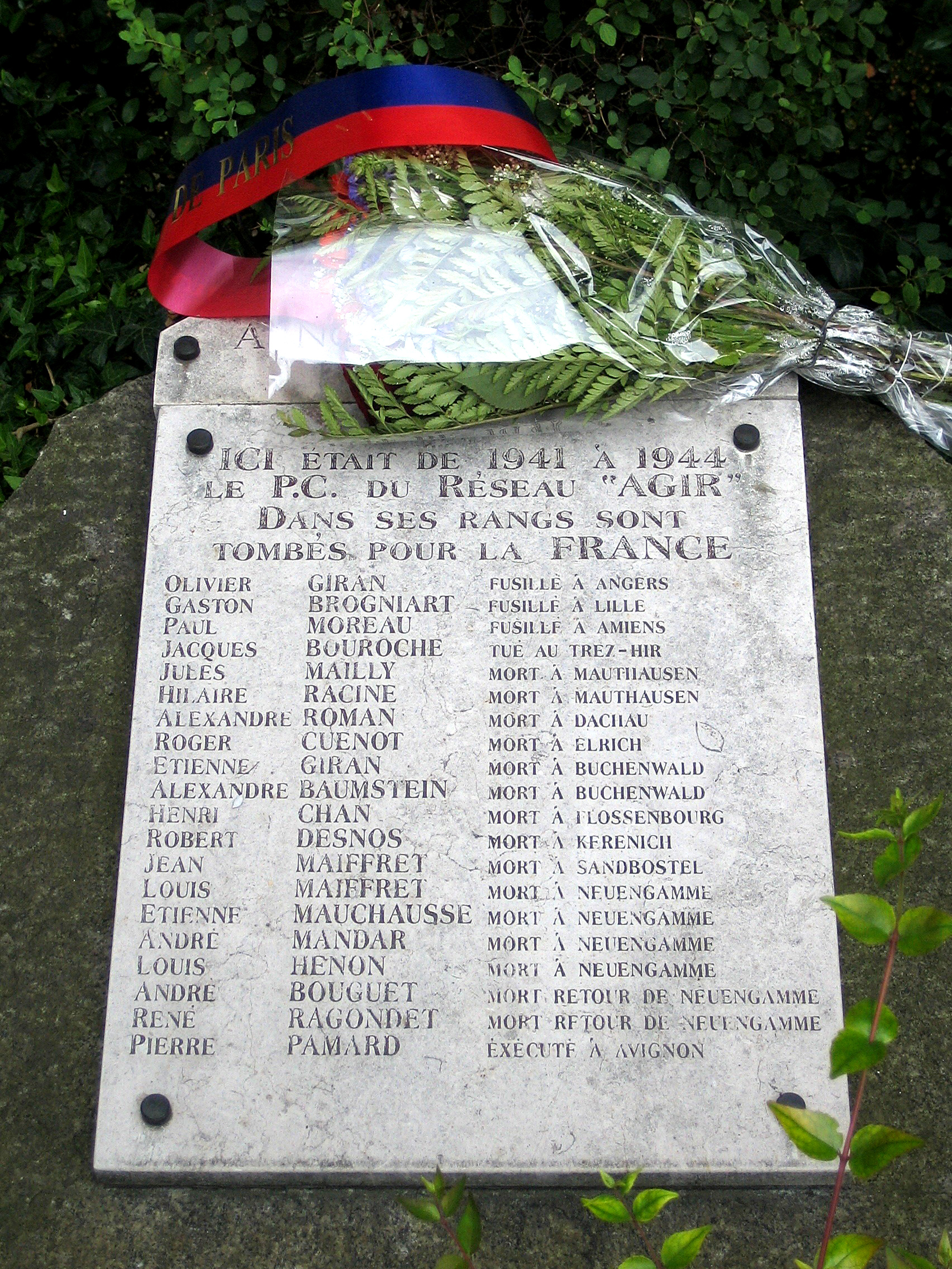 Plaque at the rue de Bercy 207, the location of the former Hotel d'Annecy where the command post of the Réseau Agir was; Paris, France. The plaque commemorates the 20 people who were killed in action for the Réseau Agir during World War II. Pierre Pamard was executed after the liberation of France by his compatriots. To not endanger Agir Pamard refused to work with the Résistance. That was interpreted by the French as collaboration with the Germans[1].